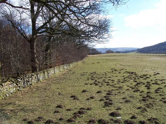 Molehill Country. Meikle Dumfin Farmland